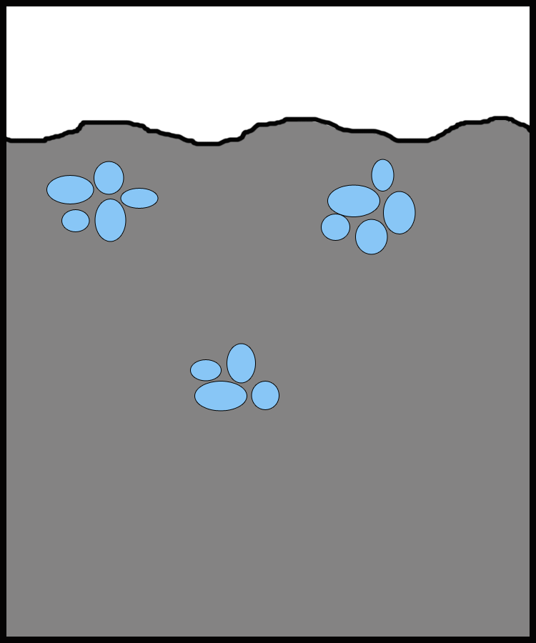 flocculation